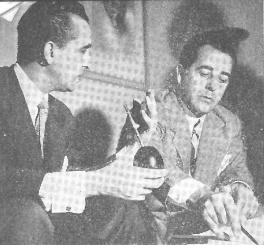 Both argentinian: singer, producer, actor and director Hugo del Carril and Walter Ciocca, comic artist and architect.